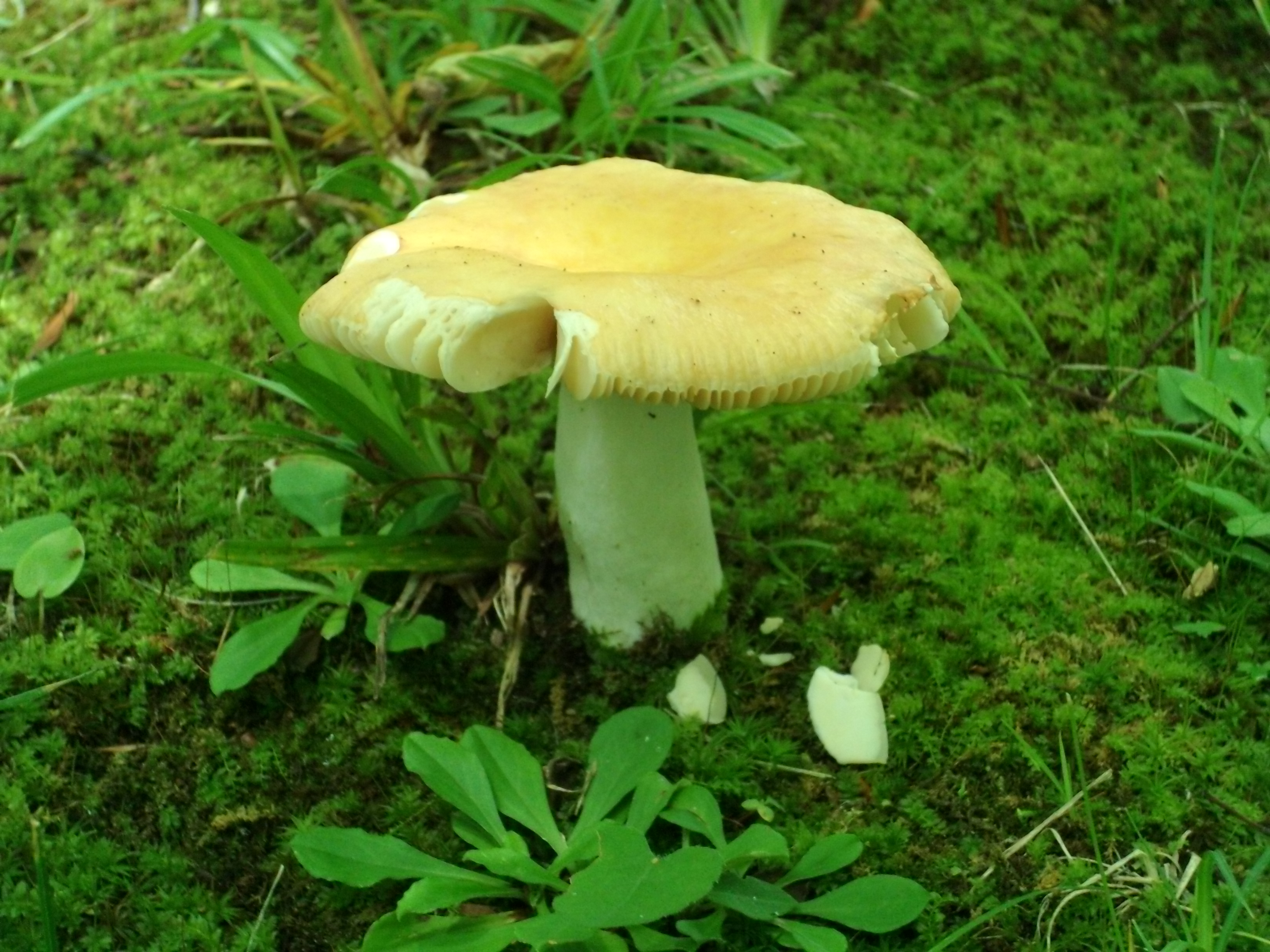 mushroom